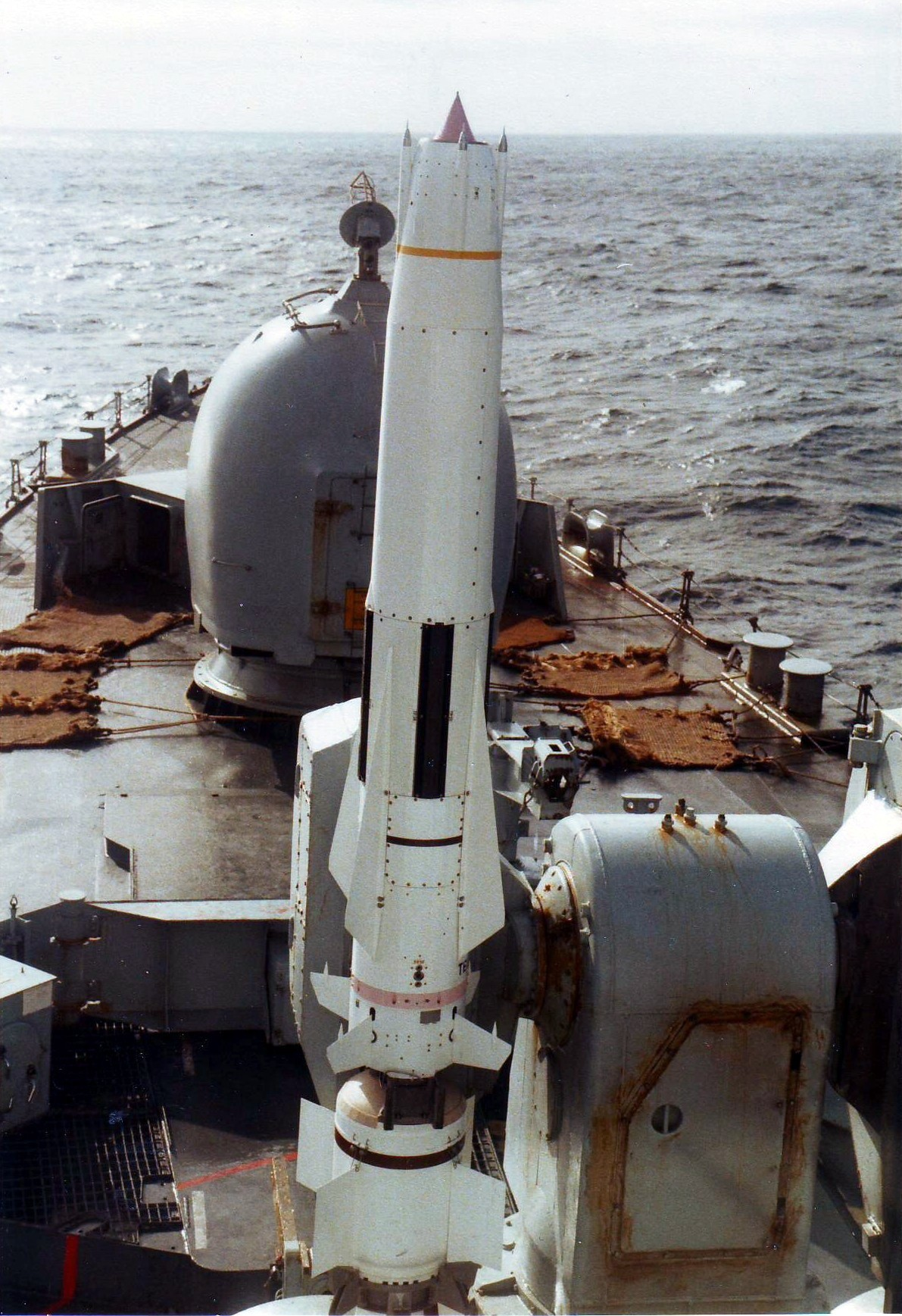 A live Sea Dart missile on British destroyer HMS Cardiff. Photograph taken many months after the end of the Falklands War. This missile was loaded on to the launcher in response to air contacts detected closing on the Falklands Islands. The missile launcher failed to aim towards the threat and the missile itself became unserviceable, however the closing aircraft turned back anyway. I think this is a telemetry round. The telemetry receive antenna can clearly be seen sitting on the top of the 4.5 gun. The gun would be trained to follow the aquiring 909 and therefore always be aligned to follow the missile and thus pick up the telemetry data.